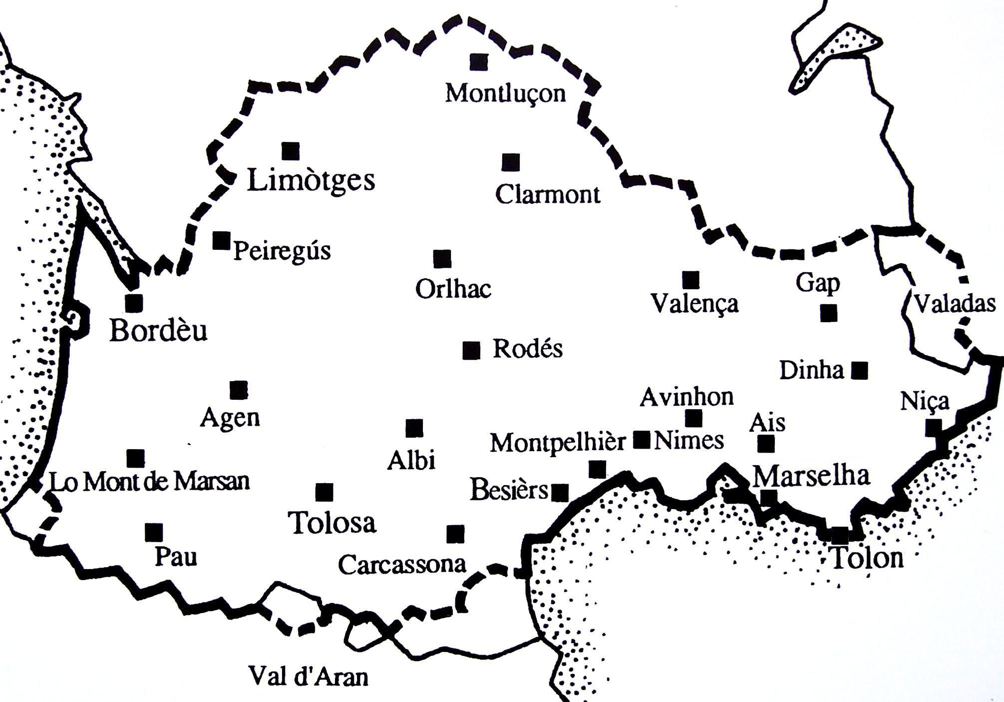 Map of OCCITANIA